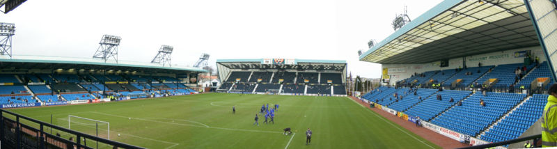 Rugby Park - a football stadium situated in the Scottish town of Kilmarnock.